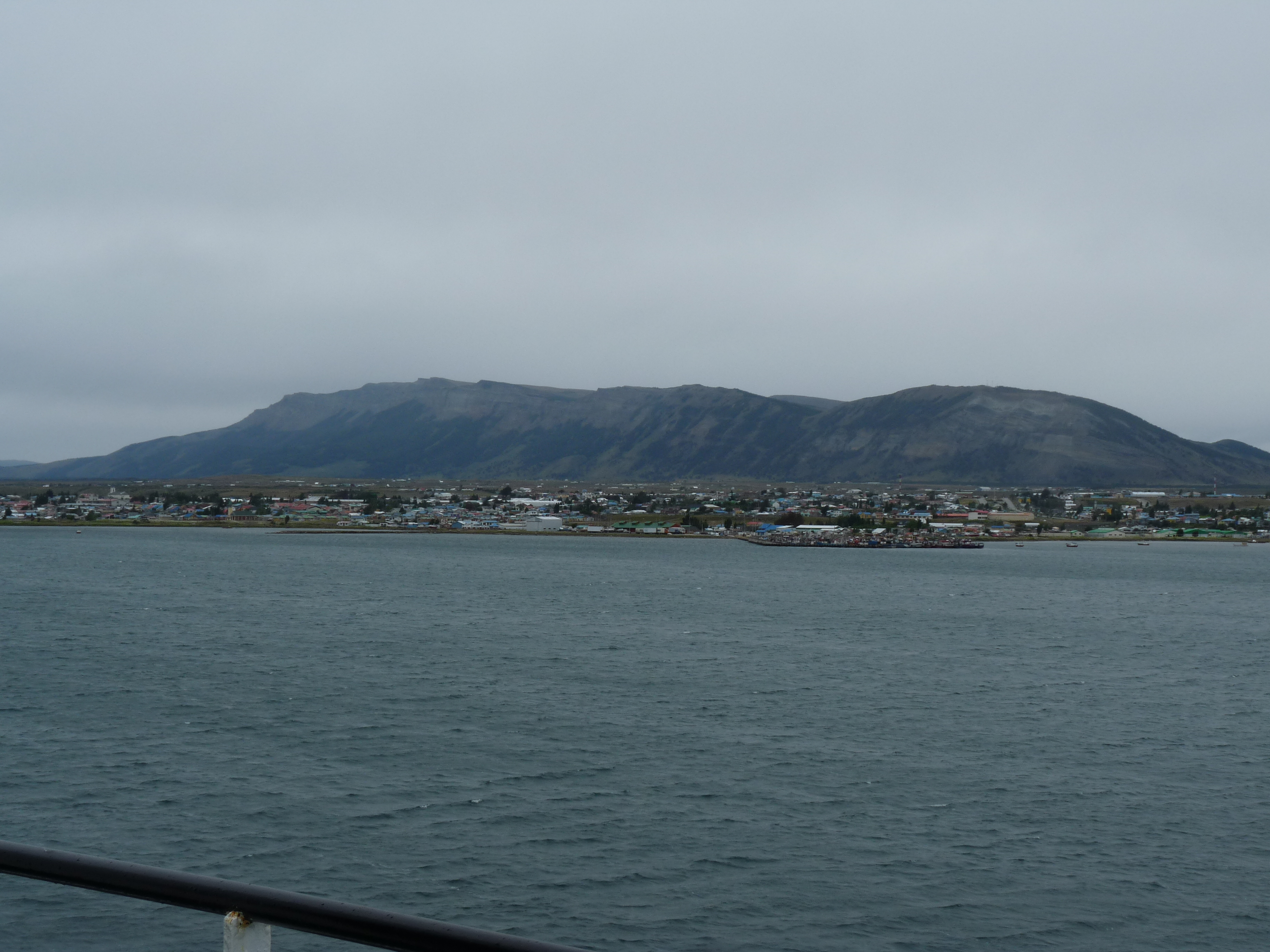 Puerto Natales, Chile, view from the NAVIMAG ferry.